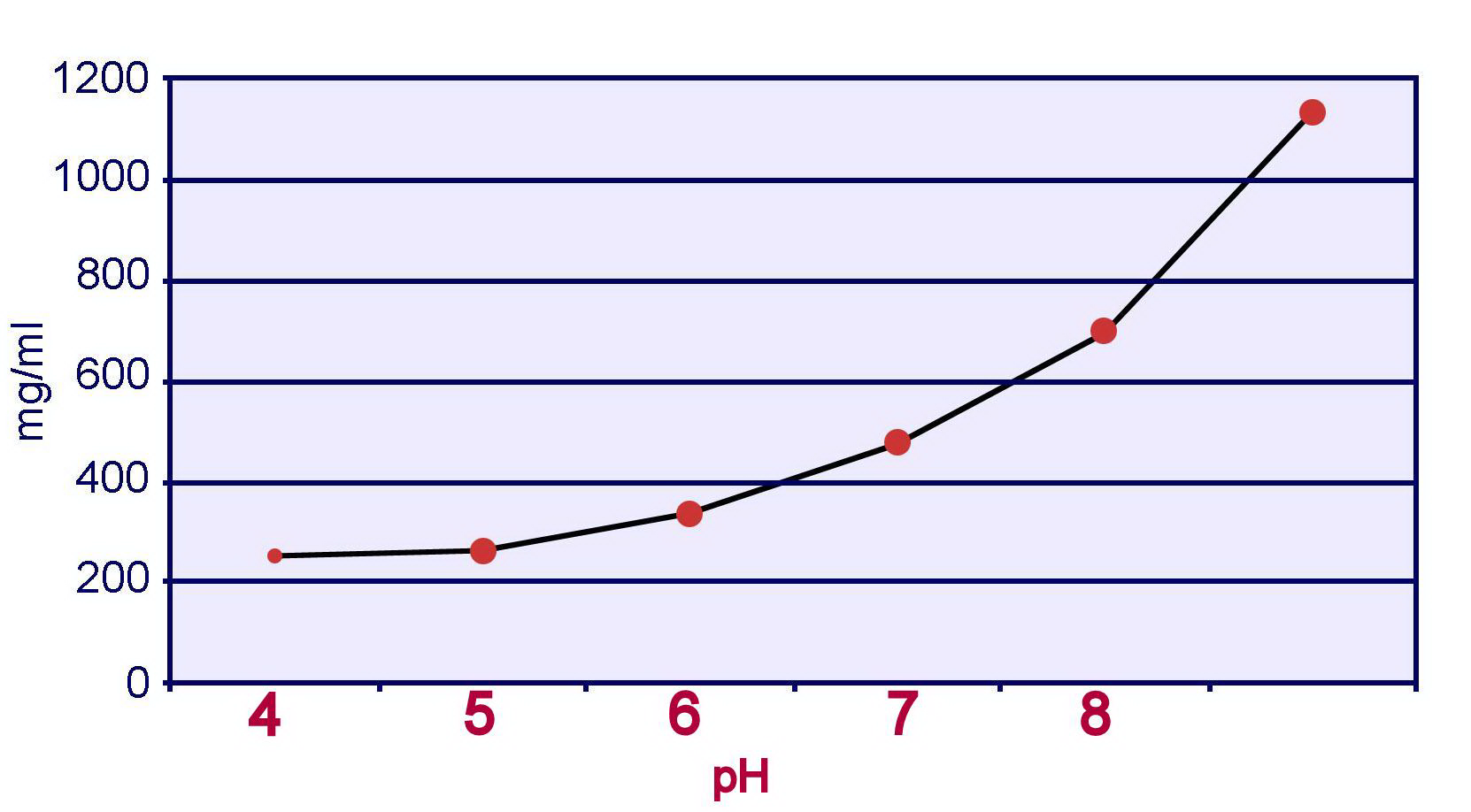 Cystine solubility in urine